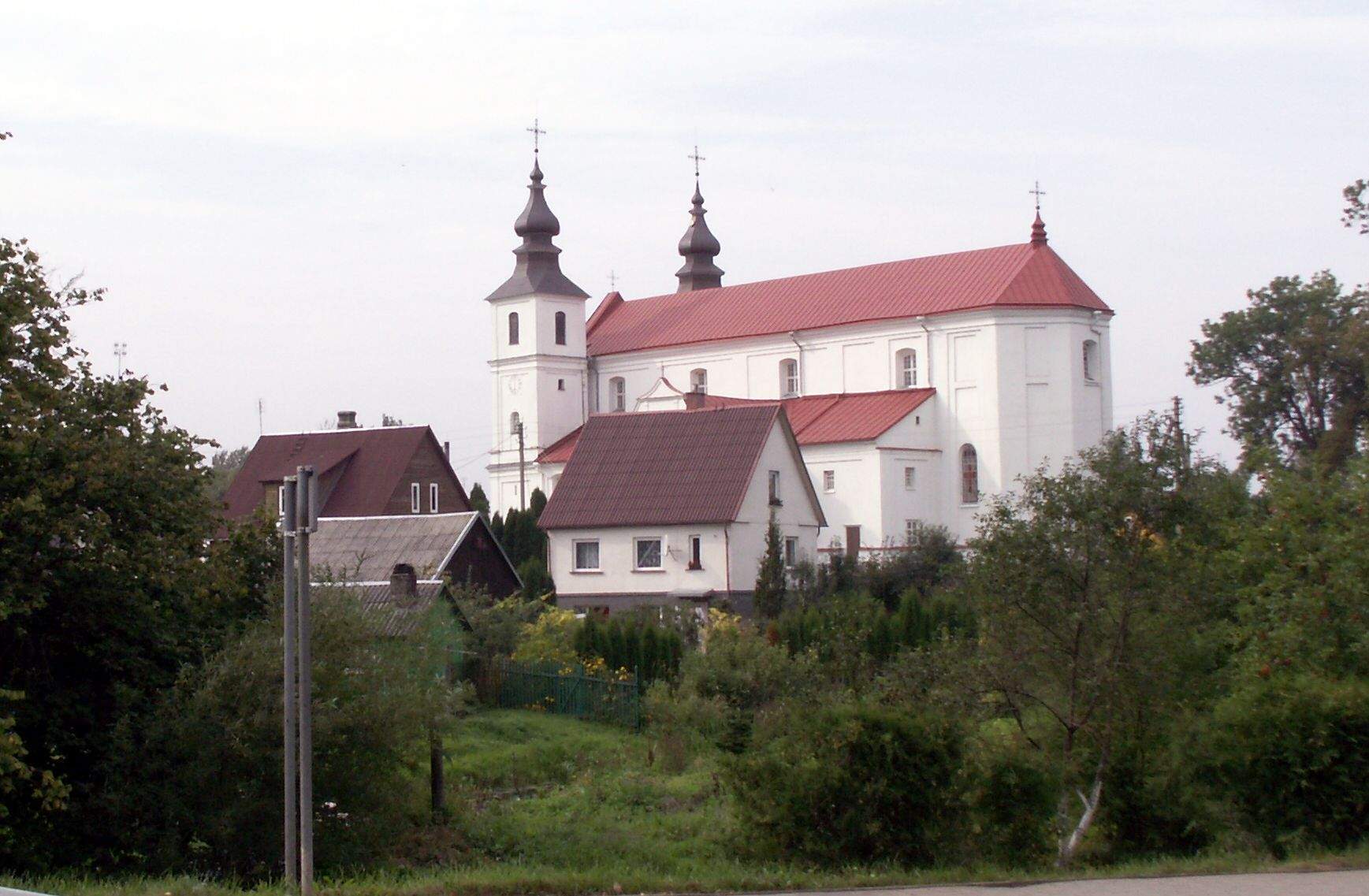 Varniai church, Lithuania